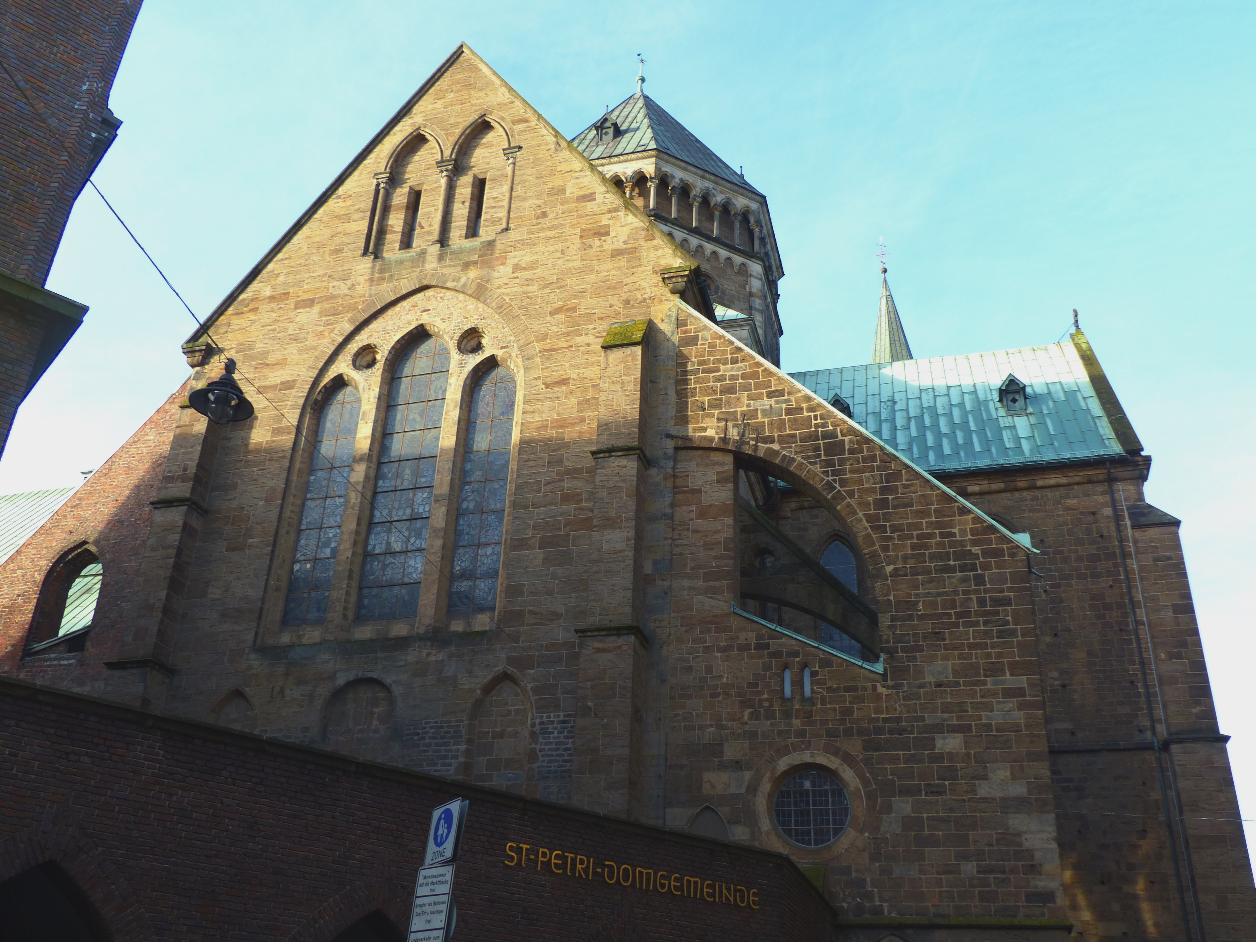 Choir and northern transept of Bremen Cathedral